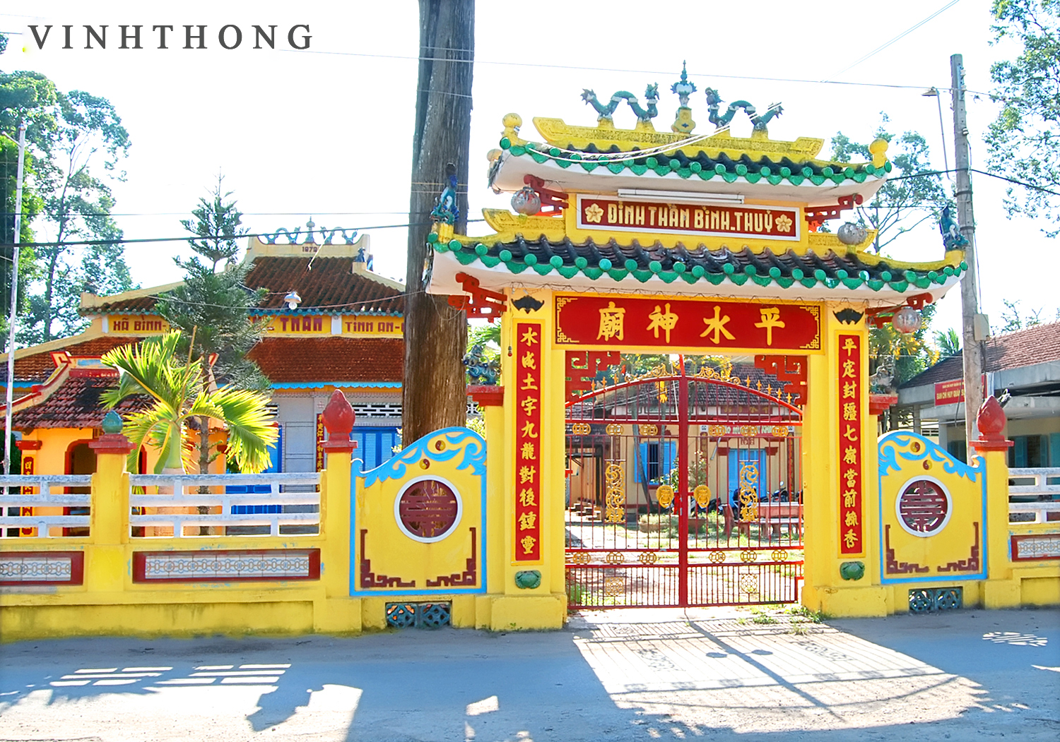 Đình thần Bình Thủy, xã Bình Thủy, Châu Phú, An Giang